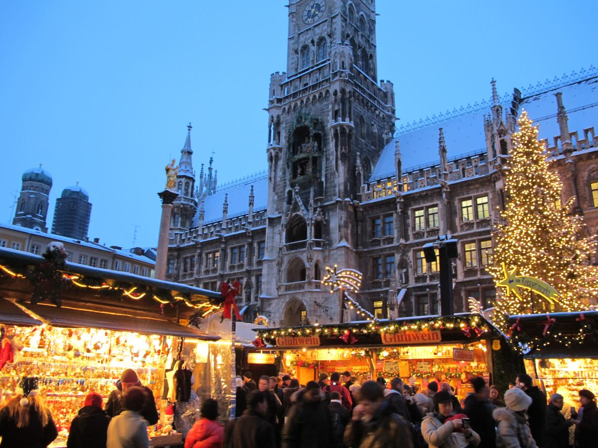 Christmas Market at Marienplatz